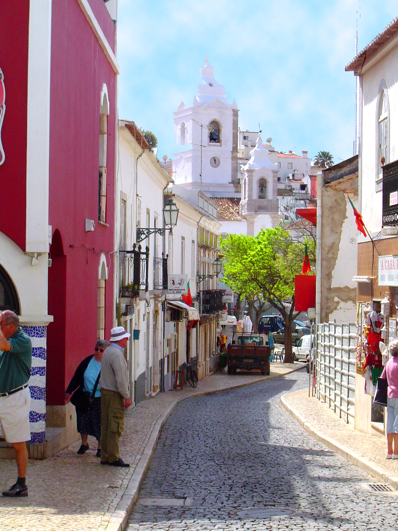 Looking north along Rua Silva Lopes in the city of Lagos, Algarve, Portugal